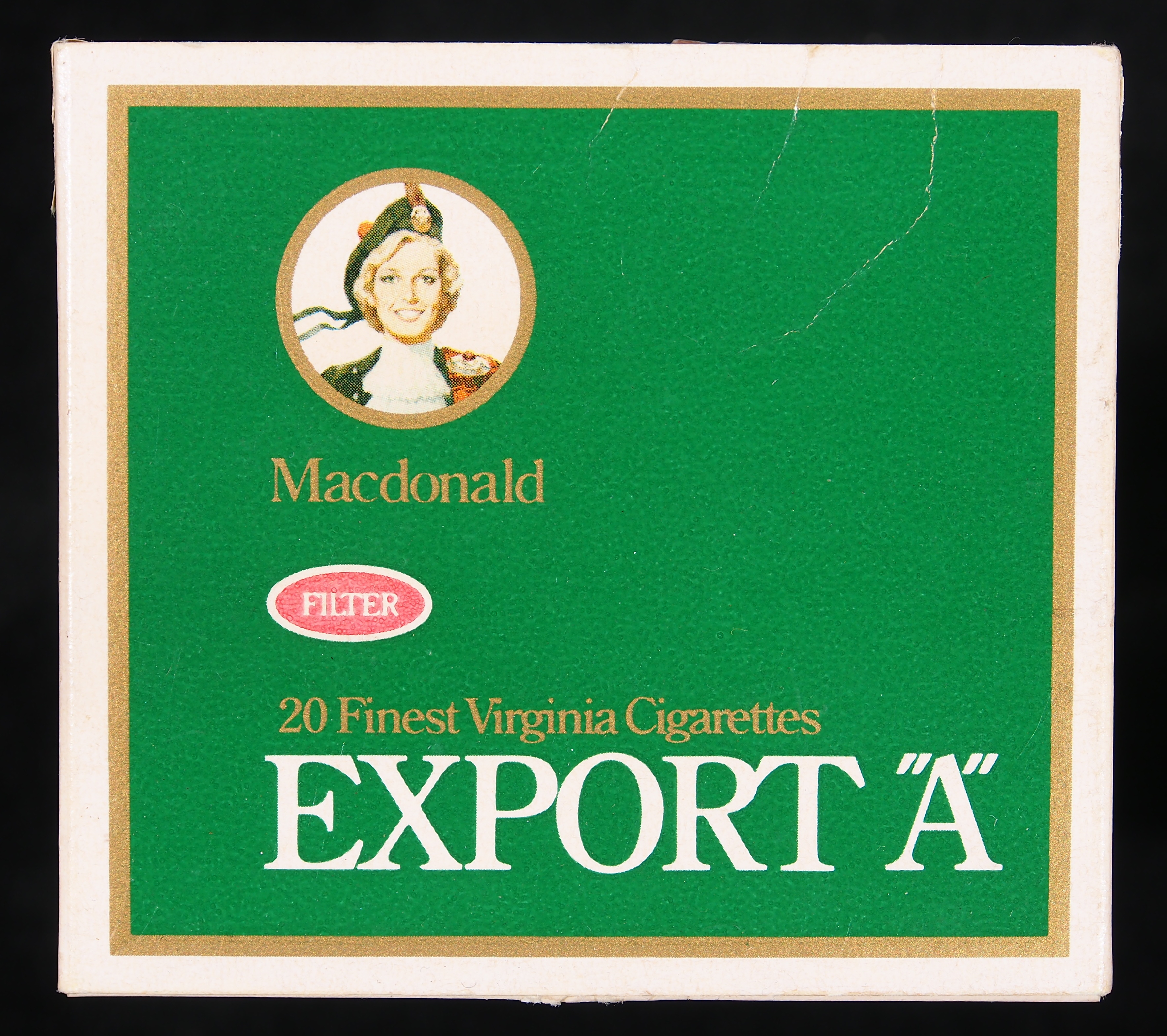 Very old packaging of a product that is not produced and/or not sold any more.